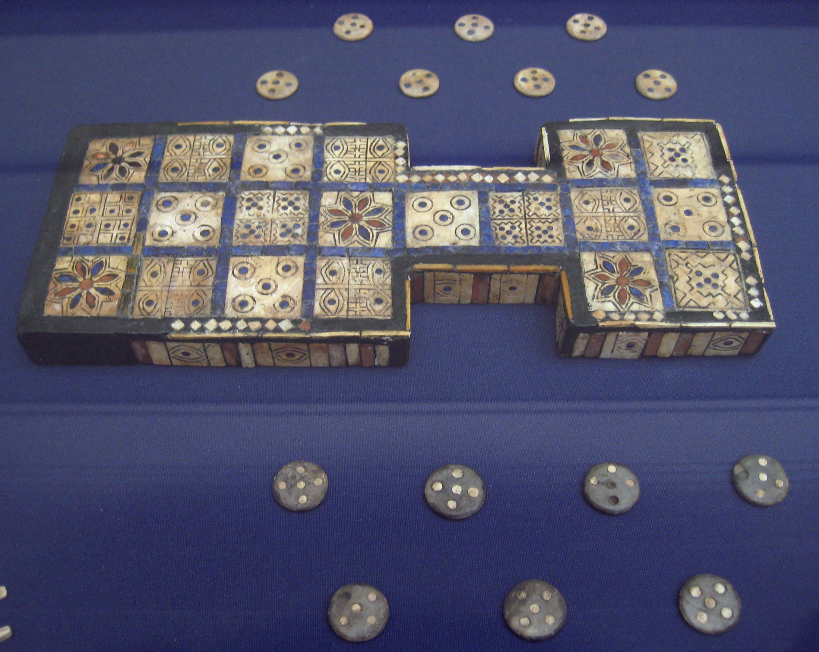 Wooden game-board; the face is of 20 variously inlaid square shell plaques; edges made of small plaques and strips, some sculptured with an eye and some possibly with rosettes; on the back are three lines of shell triangular ornamental inlays.